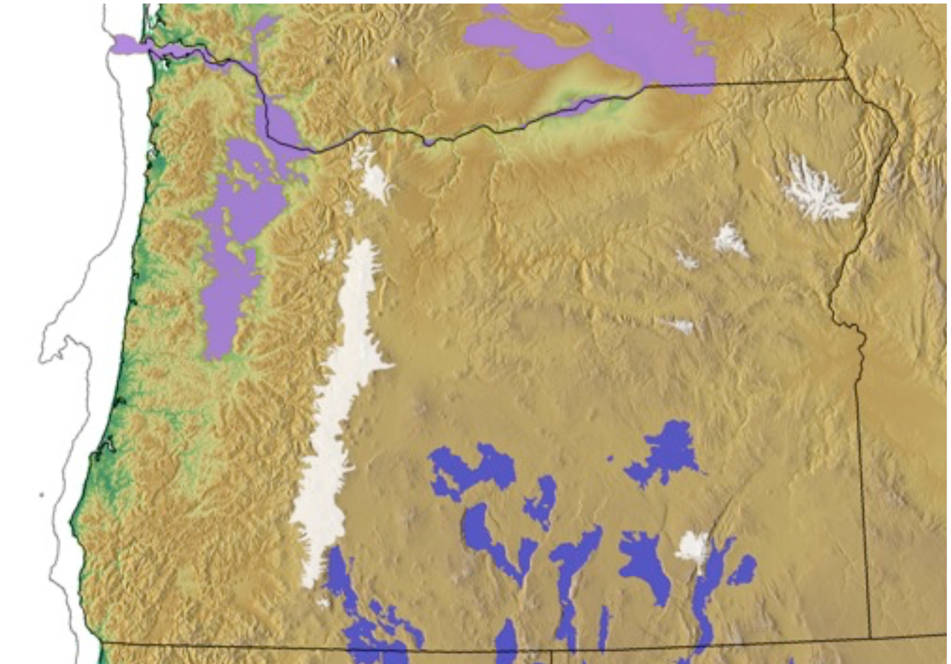 The glacial periods left distinctive fingerprints across Oregon. During the Last Glacial Maximum, sea level was approximately 120 m (400 ft) lower than today and the Pacific Coast was 20 - 60 km (13 -38 mi) further to the west (shown as gray line). The “pluvial” lakes of central and southeast Oregon (dark blue) were 70 m (230 ft) deeper than at present for most of the late Pleistocene (and deeper during the early Pleistocene). At roughly 17,000 years ago, glaciers (white) descending from the mountains reached their maximum extent. These glaciers were restricted to the Cascades, Steens, Aldrich, Greenhorn, Strawberry, and Wallowa Mountains. From 20,000 to 15,000 years ago, dozens of Missoula Flood events (purple), originating from glacial lake Missoula where the Clark Fork River was ice-dammed in northern Idaho, swept across eastern Washington and backed into the Willamette Valley, forming glacial Lake Allison to a surface elevation of 120 m (400 feet) above modern sea level. Glacier extent used in this map was compiled from the Atlas of Oregon (Loy et al., 2001) and various other data sources.